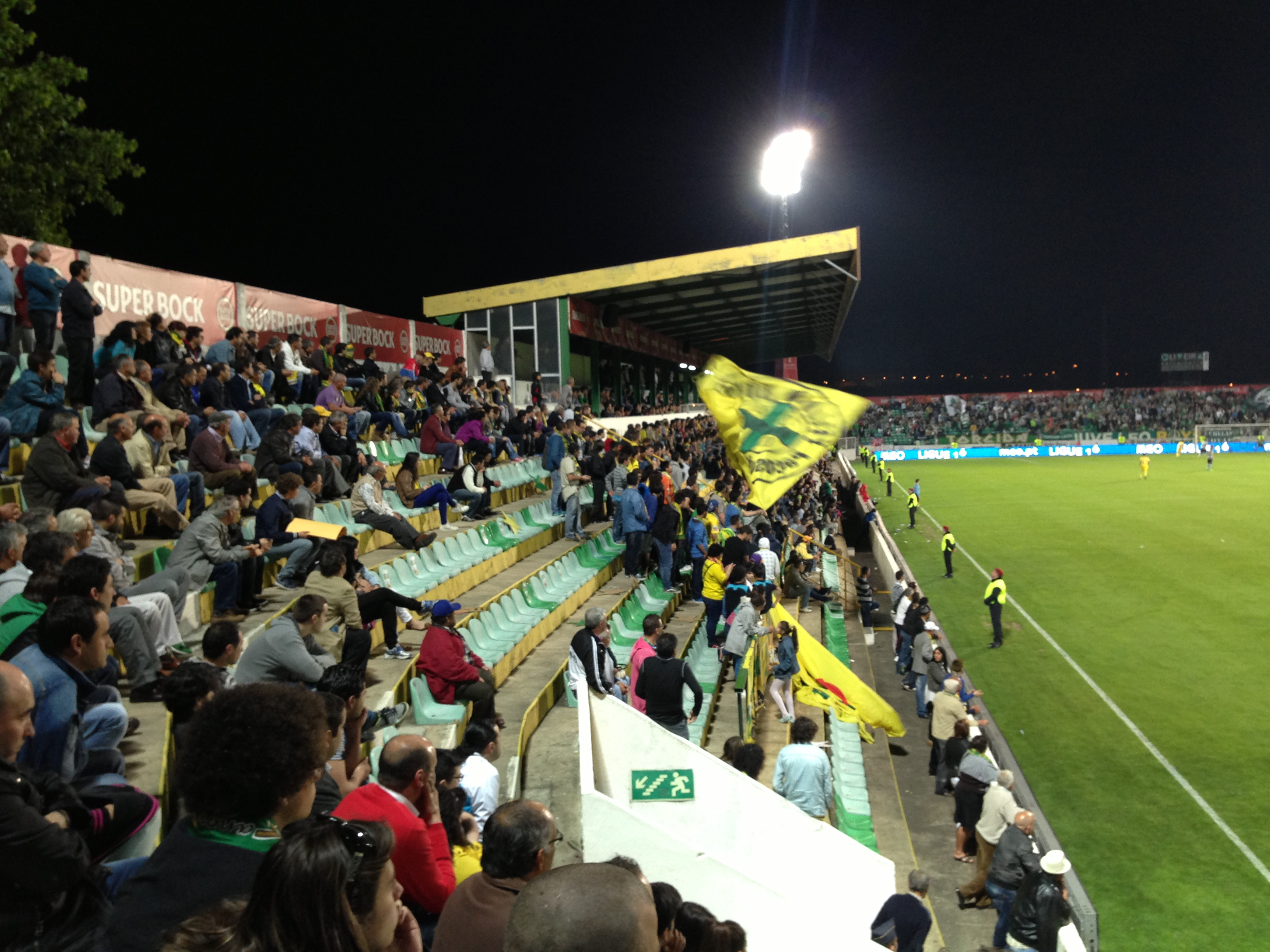 Mata Real antes das obras